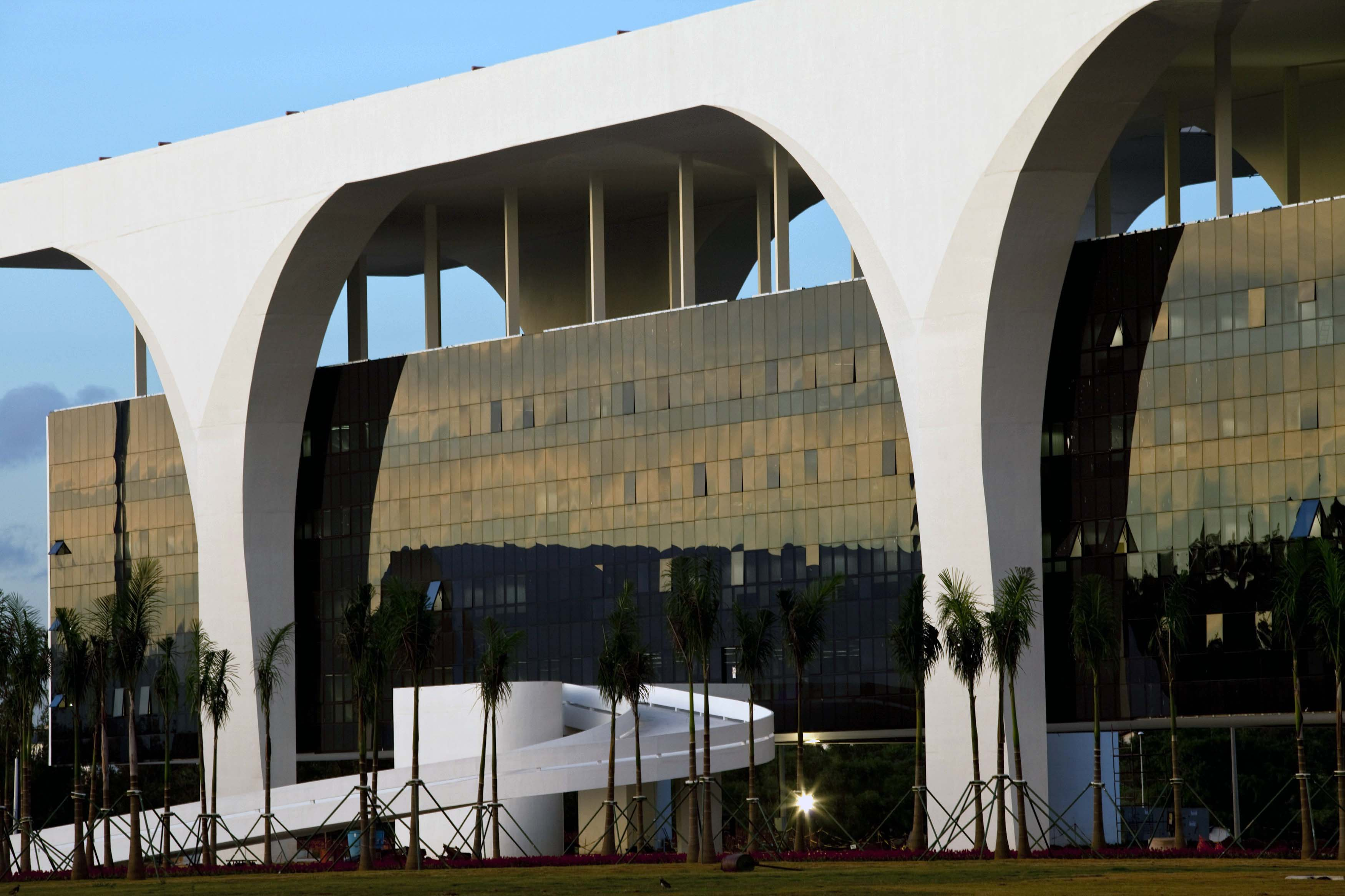 Palácio dos Tiradentes